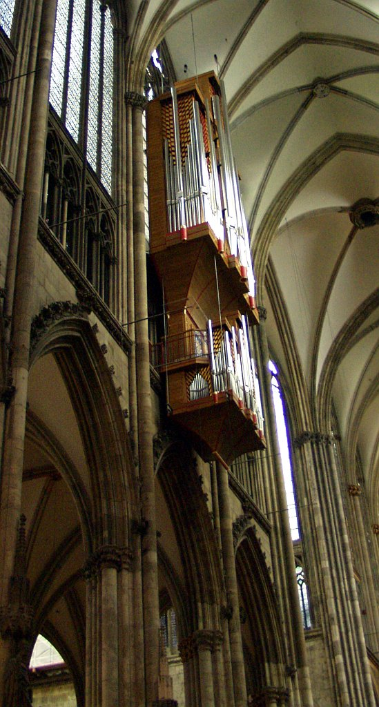 Organ of the Cologne Cathedral